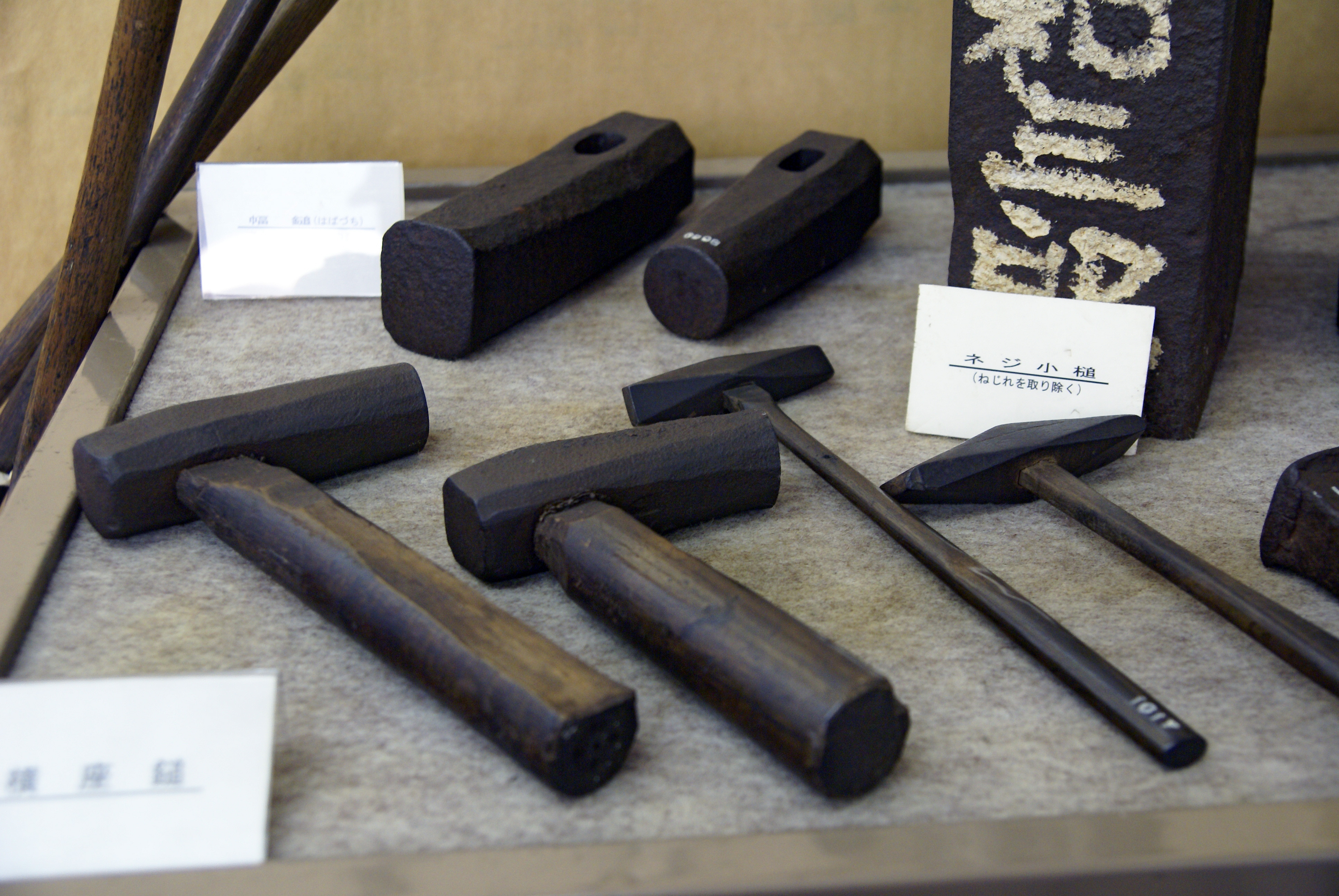 Miki City Hardware Museum in Miki, Hyogo prefecture, Japan